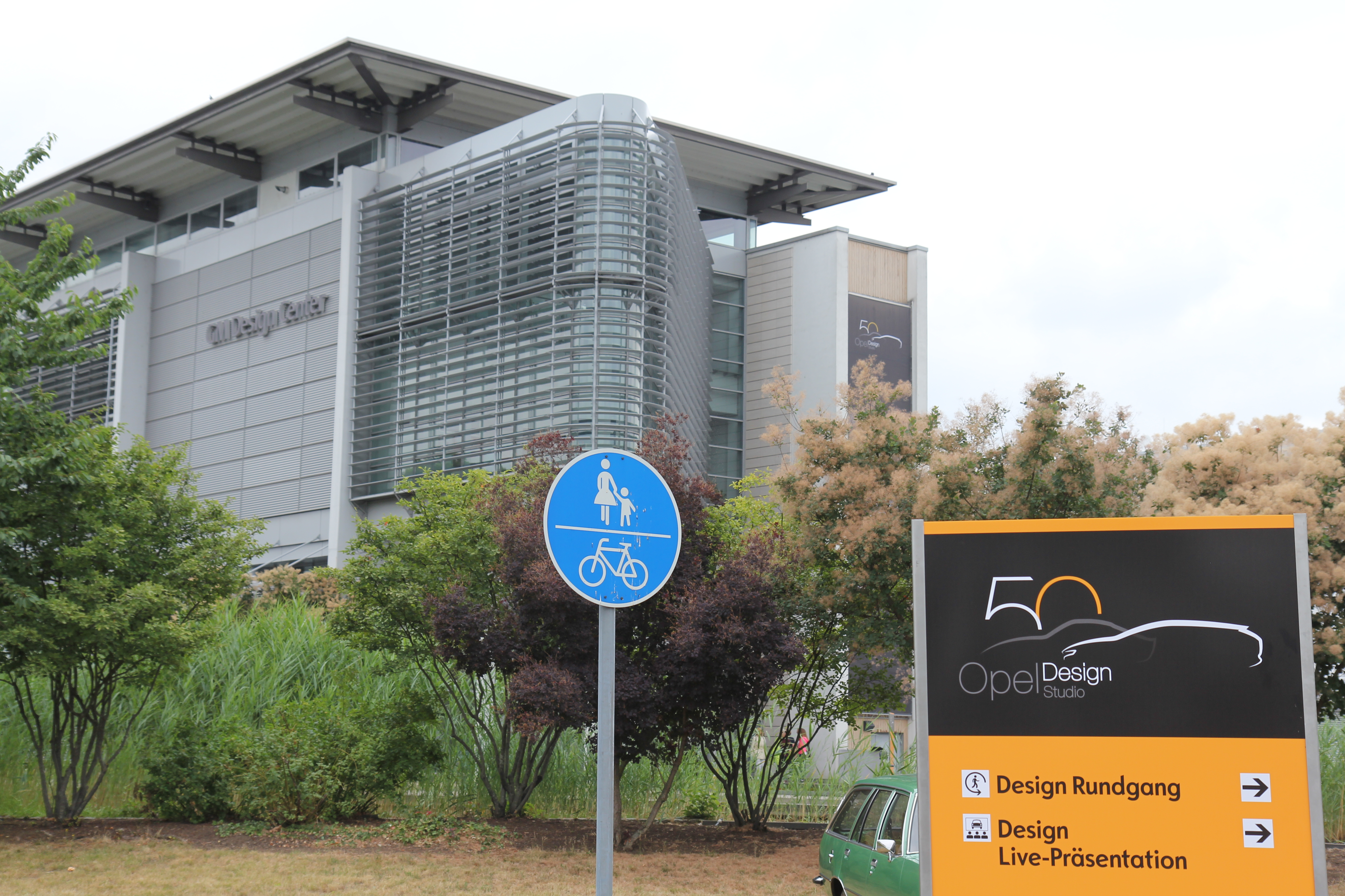 GM Design Center aka Opel Design Studio celebrating 50 years existence